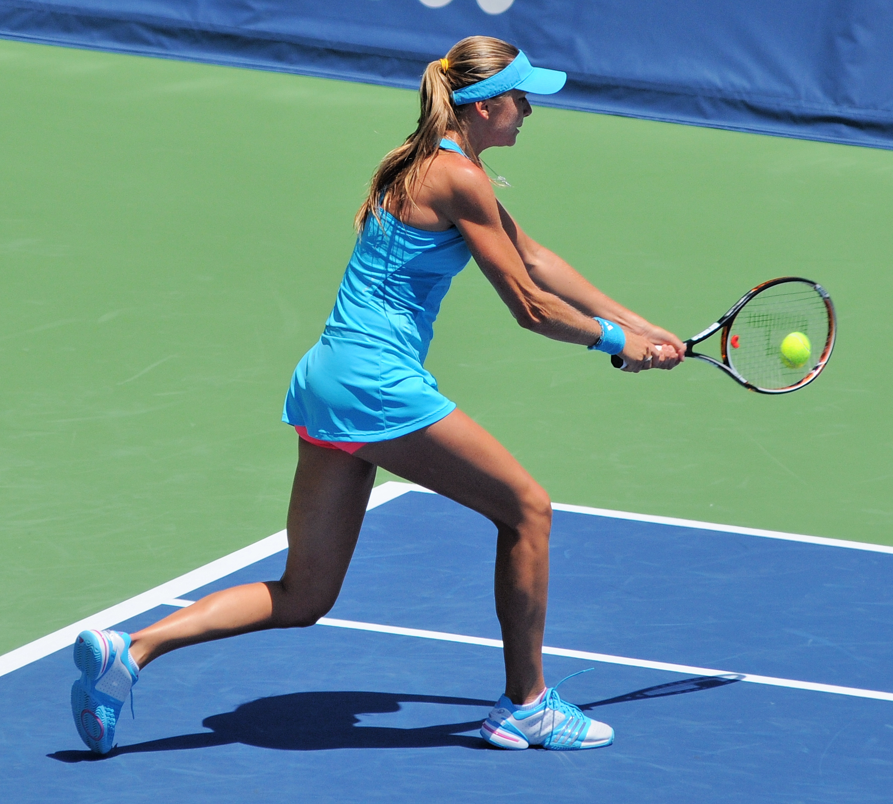 Daniela Hantuchova Mercury Insurance Tennis Open 2011